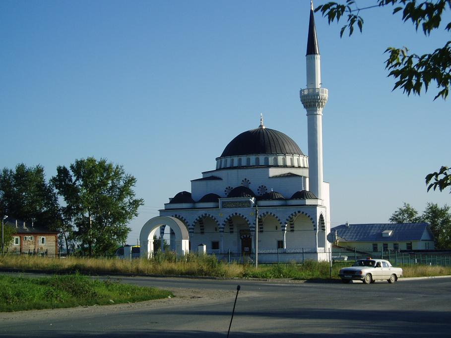 Mosque in Verkhnyaya Pyshma, Sverdlovsk Oblast, Russia Taken in summer 2005